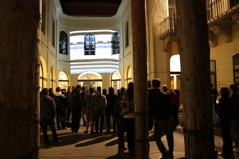 East Slovakian Gallery